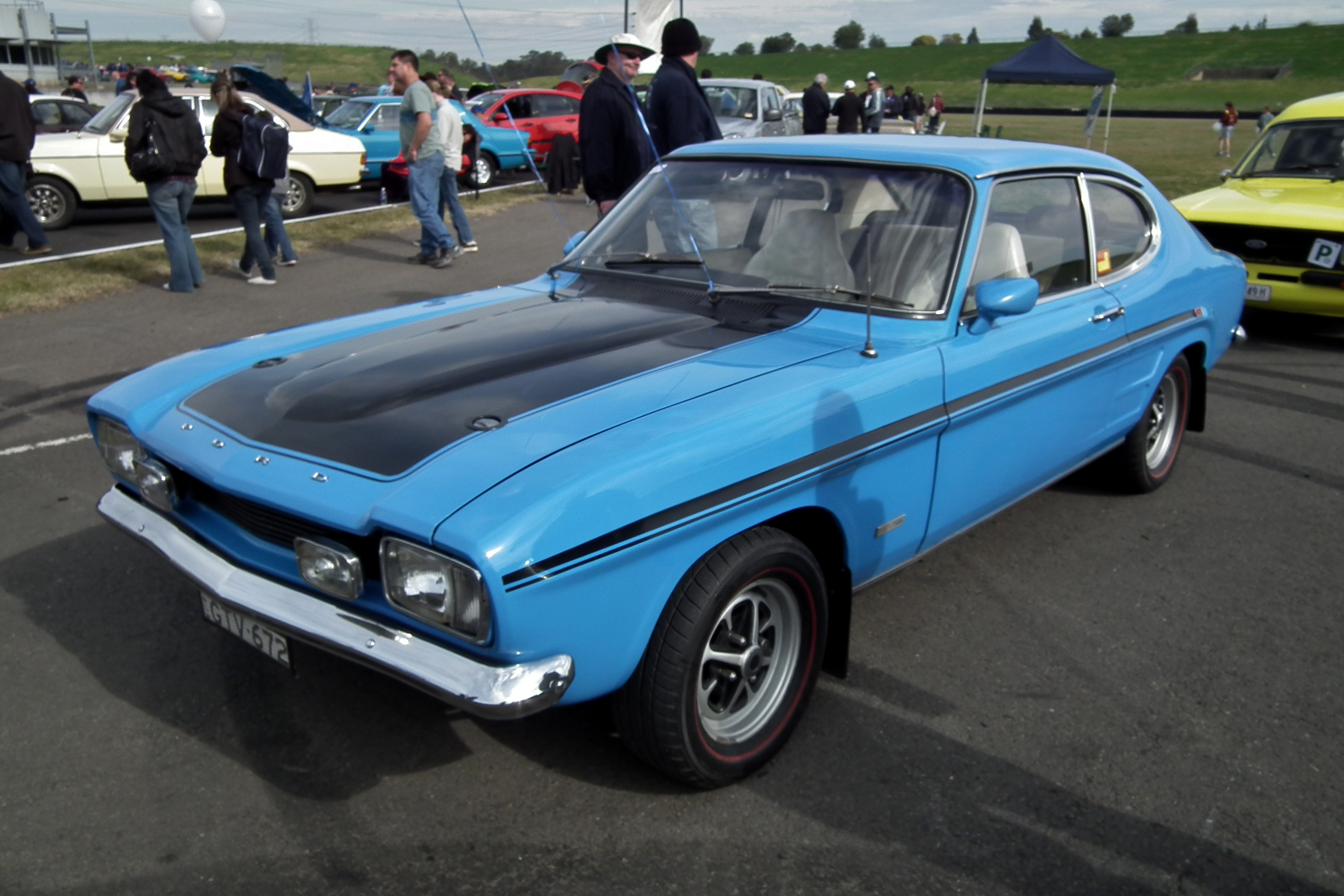 1972 Ford Capri GT 3000 V6 coupe. Taken at the 2011 New South Wales All Ford Day, held at Eastern Creek Raceway.